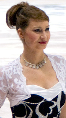 2010 Cup of Russia, short program.